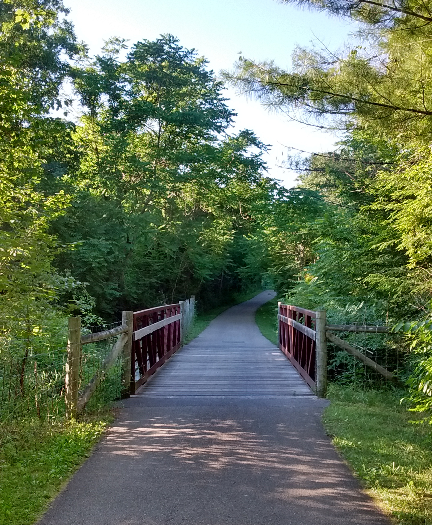 Huckleberry Trail with bridge over Slate Branch creek, Montgomery County, Virginia